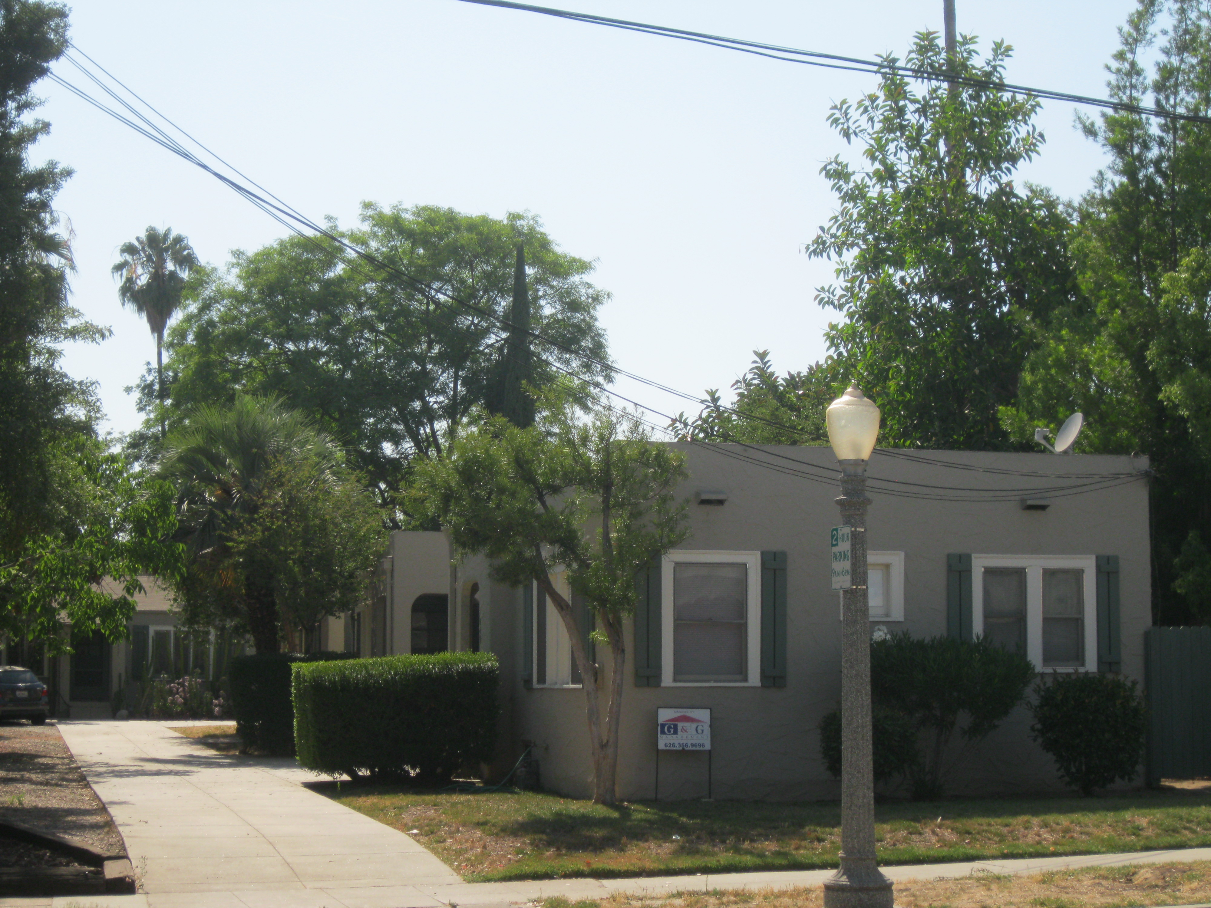 The Rose Court in Pasadena, California, which is listed on the National Register of Historic Places.